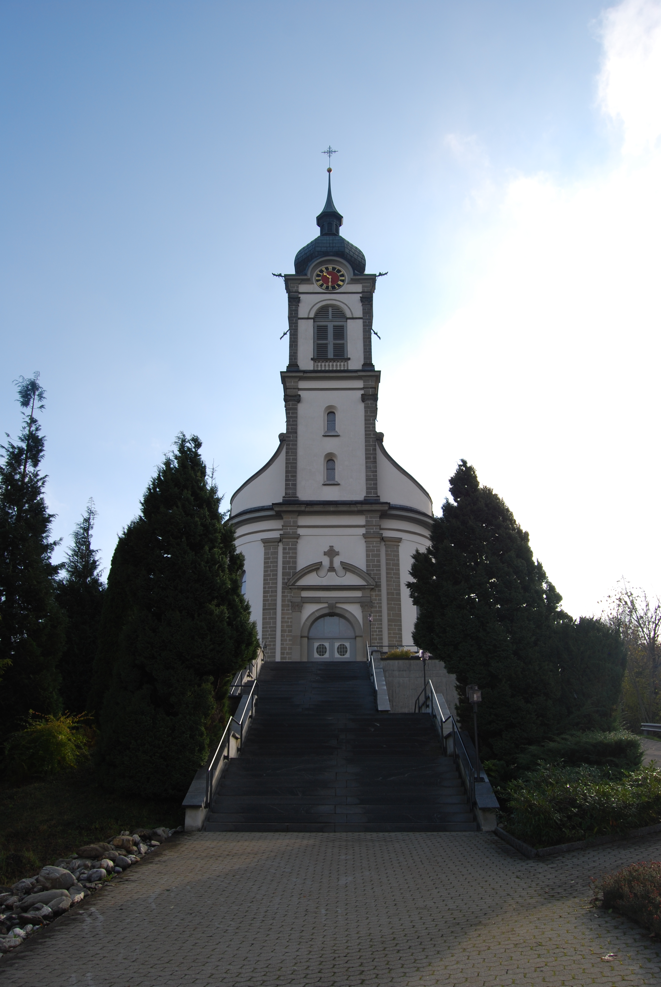 Catholic church St. Anna of Schindellegi, canton of Schwyz, Switzerland